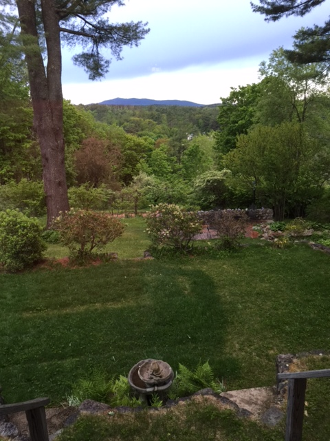 Mount Monadnock, viewed from Peterborough, NH.